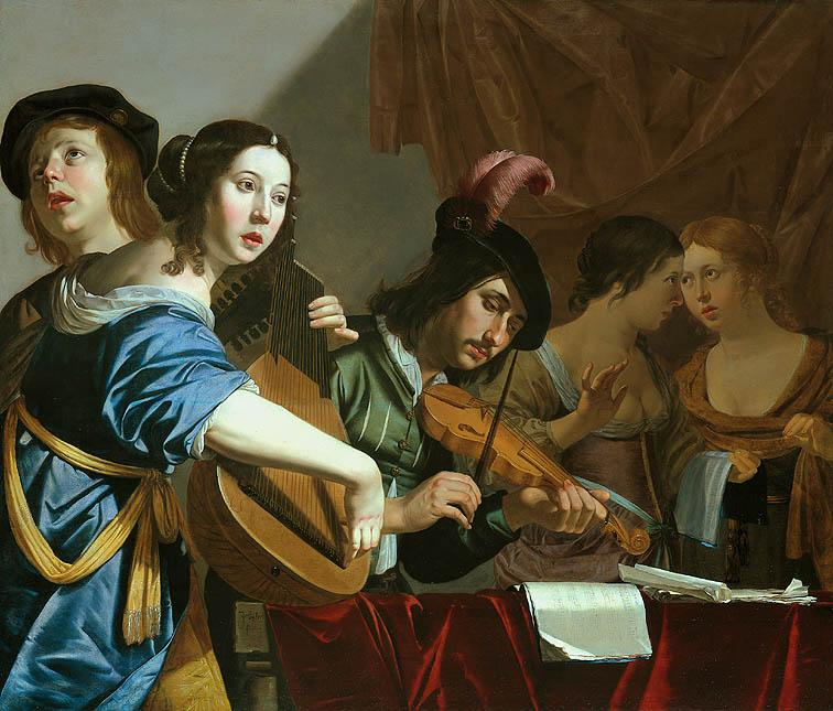 The girl is playing a type of theorbo that combined two ranges of strings with separate peg boxes; the base strings (longer) went to the straight pegbox that peeks from behind the girl's head. The other lute strings went to the bent pegbox.[1]